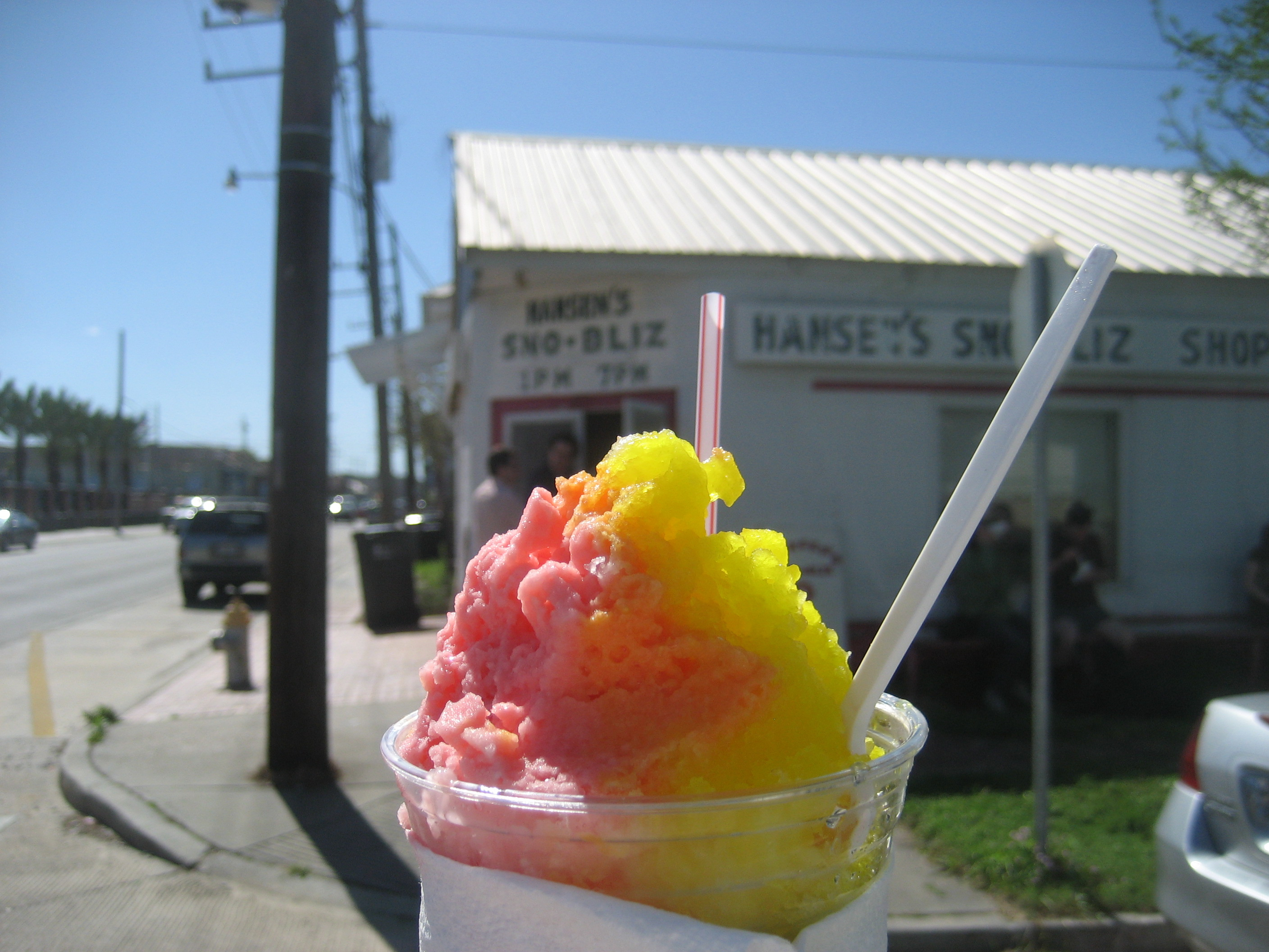 Hansen's Sno-Bliz, New Orleans. Open for the 2010 season. A pinapple and necta-cream sno-bliz.